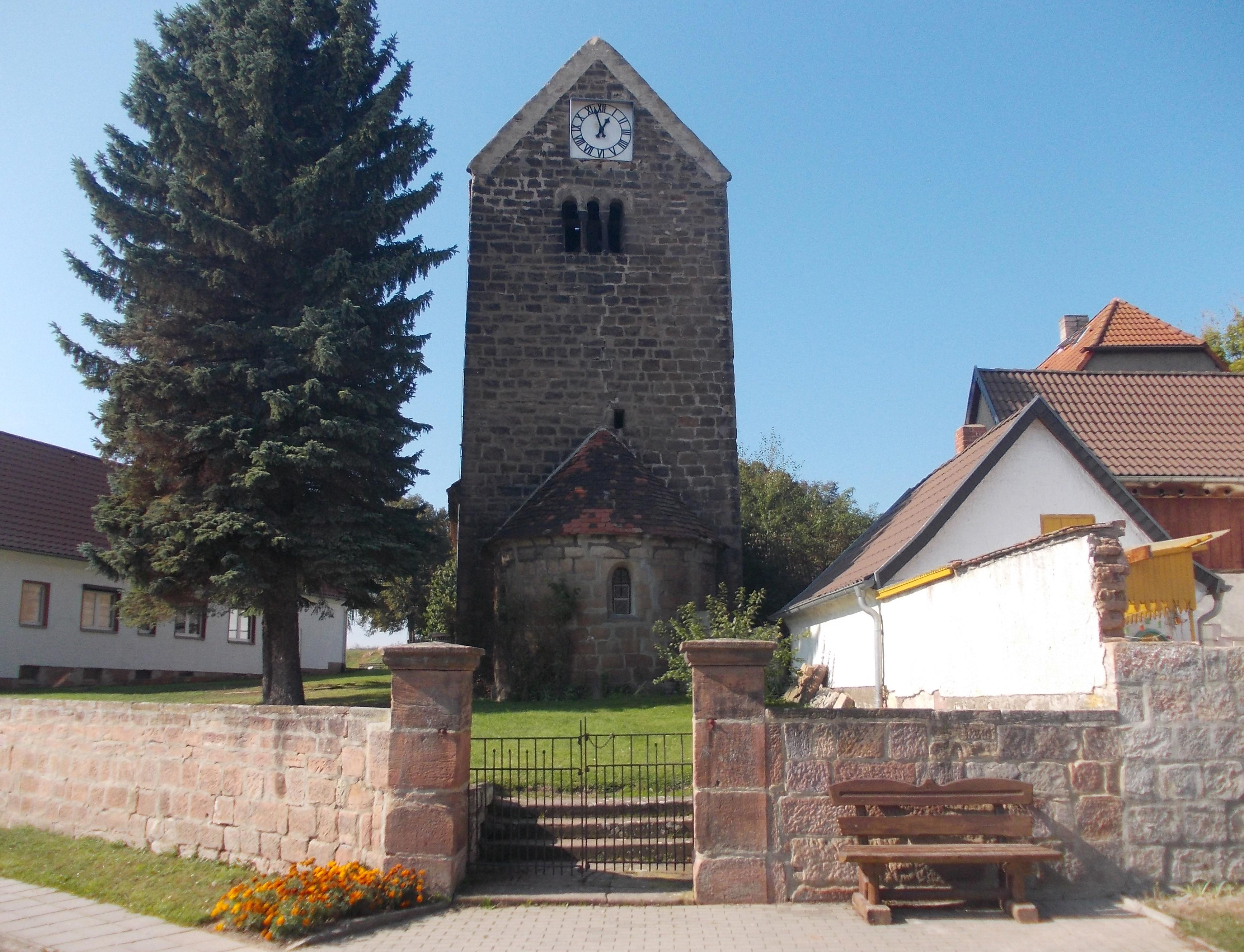 Church in Spielberg (Querfurt, district: Saalekreis, Saxony-Anhalt)